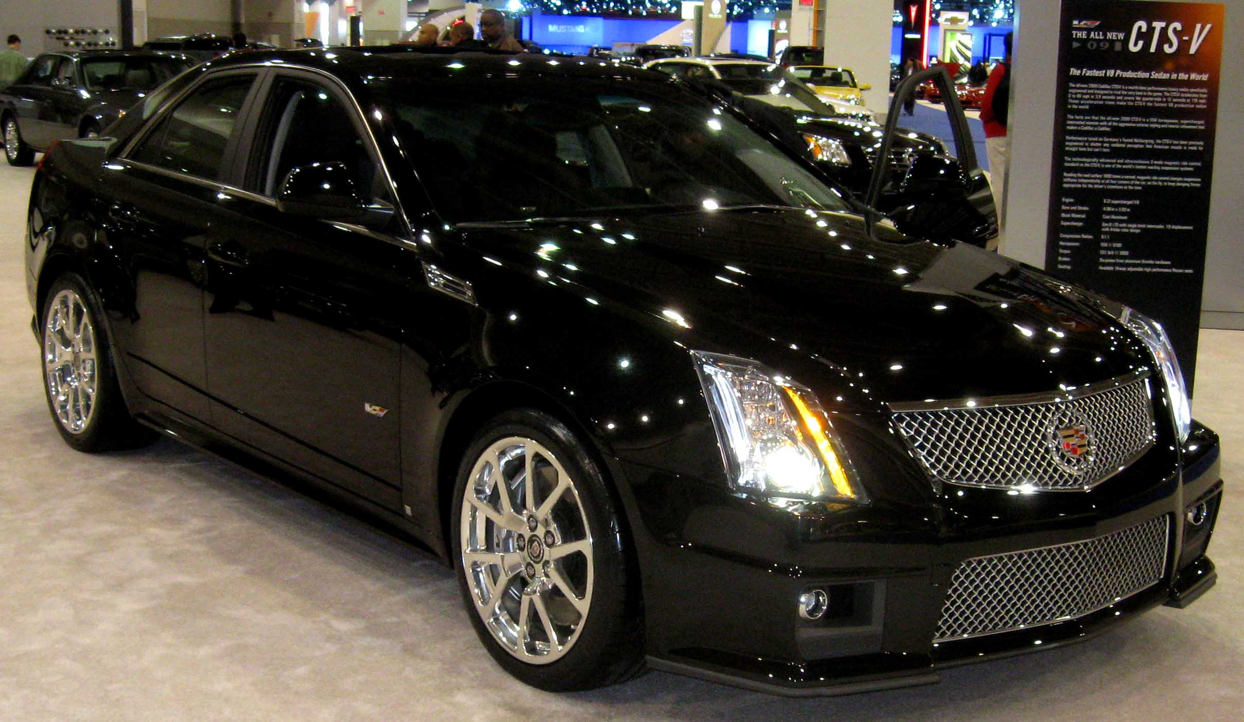 2009 Cadillac CTS-V photographed at the 2009 Washington DC Auto Show.